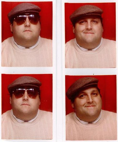 Image of late Perry DeAngelis 8/22/1963 – 8/19/2007, founding member of SGU, released CCA-SA3.0 by Steven Novella on 2015-2-1